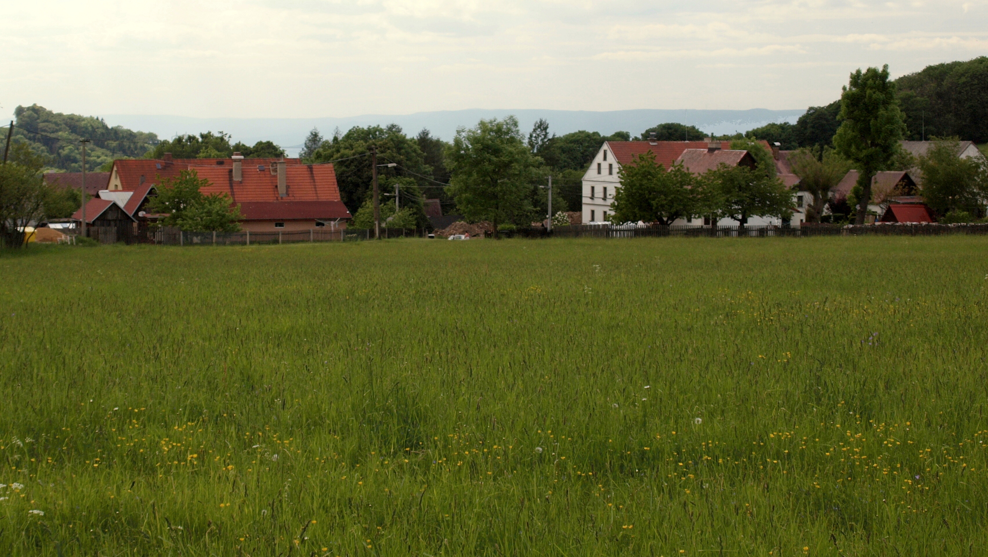 Němčí, part of Malečov municipality, Litoměřice District, Czech Republic